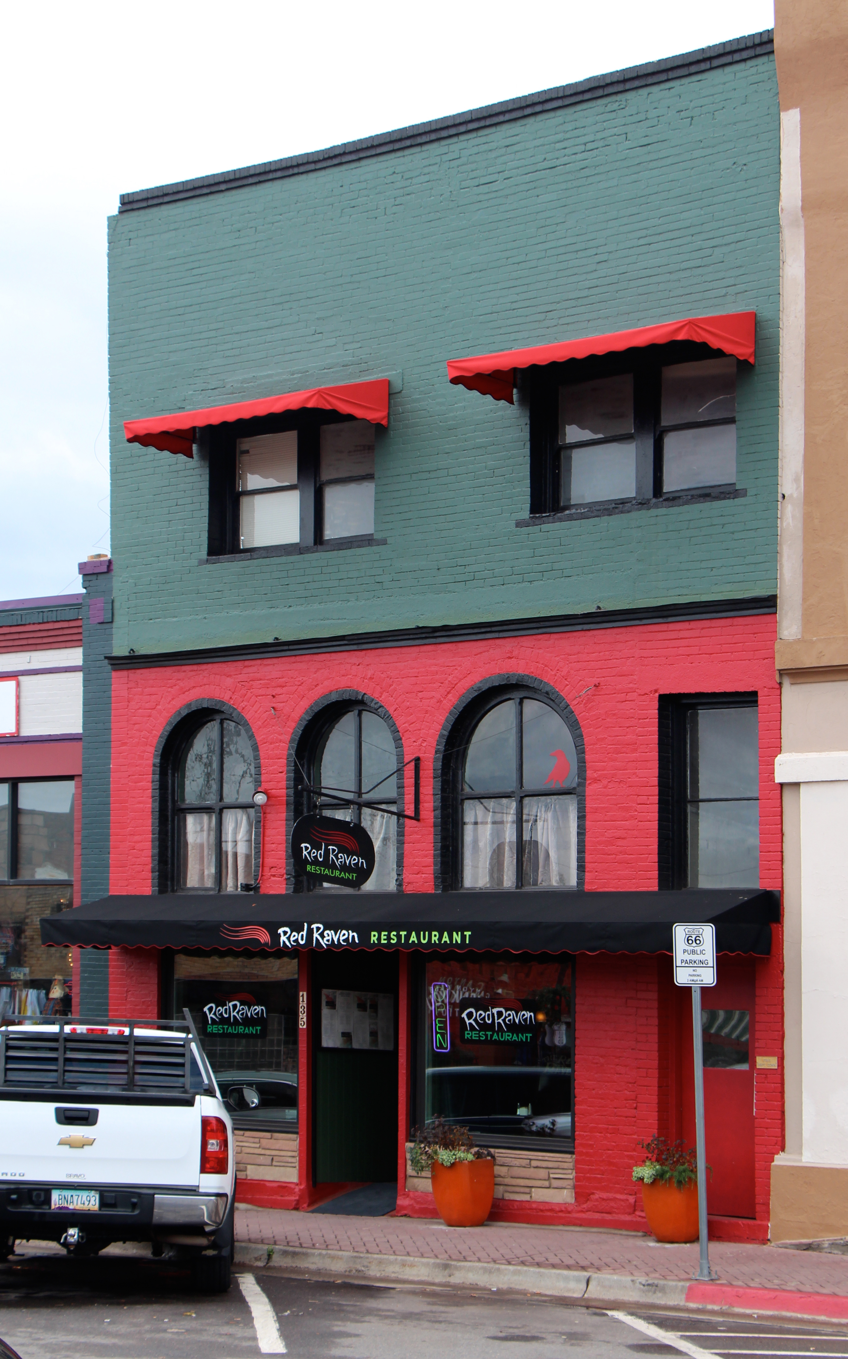 Unknown Named Building, 135 W. Route 66, Williams, AZ